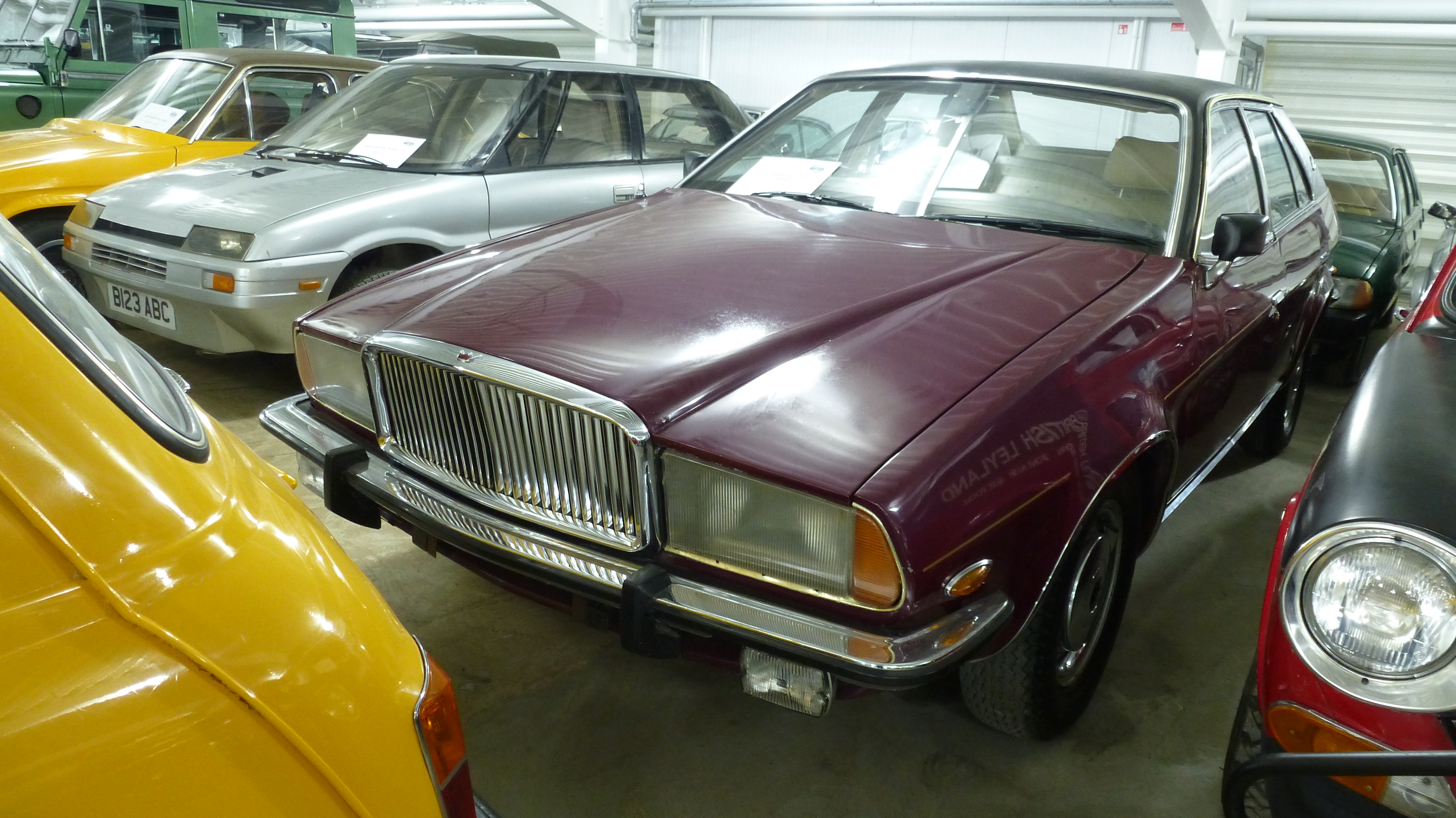 Vanden Plas 2200 (1973 prototype) in the overflow section of the Motor Industry Heritage Centre (old car collection) on the edge of Gaydon. The manufacturer never marketed a Vanden Plas badged version of the car.